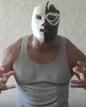 Mexican luchador Silver King in 2015.